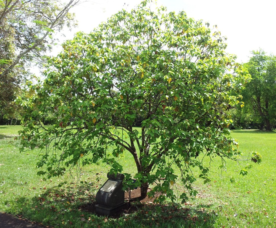 Dombeya mauritiana tree - Pamplemousses